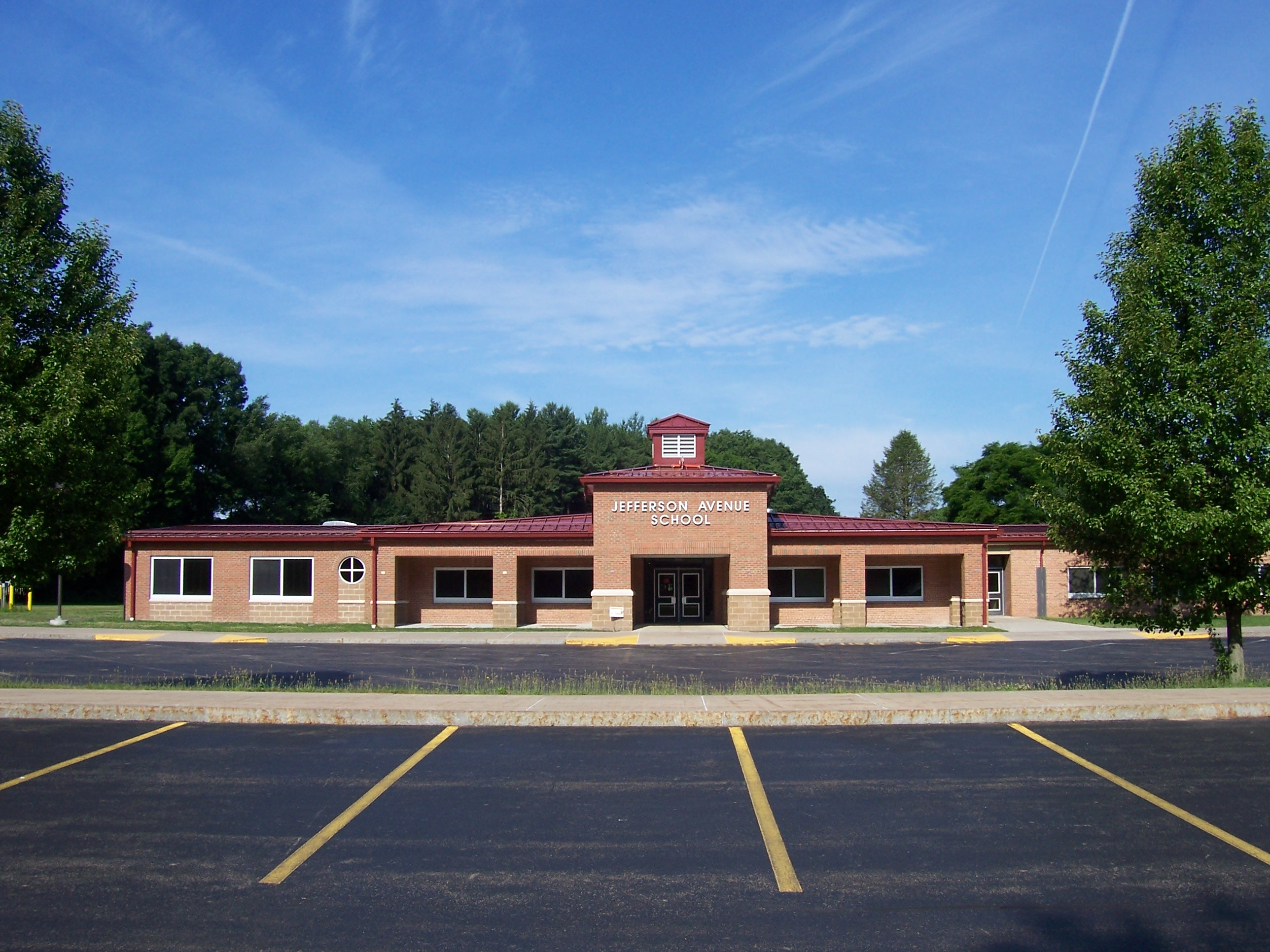 Jefferson Avenue Elementary School in Perinton, New York